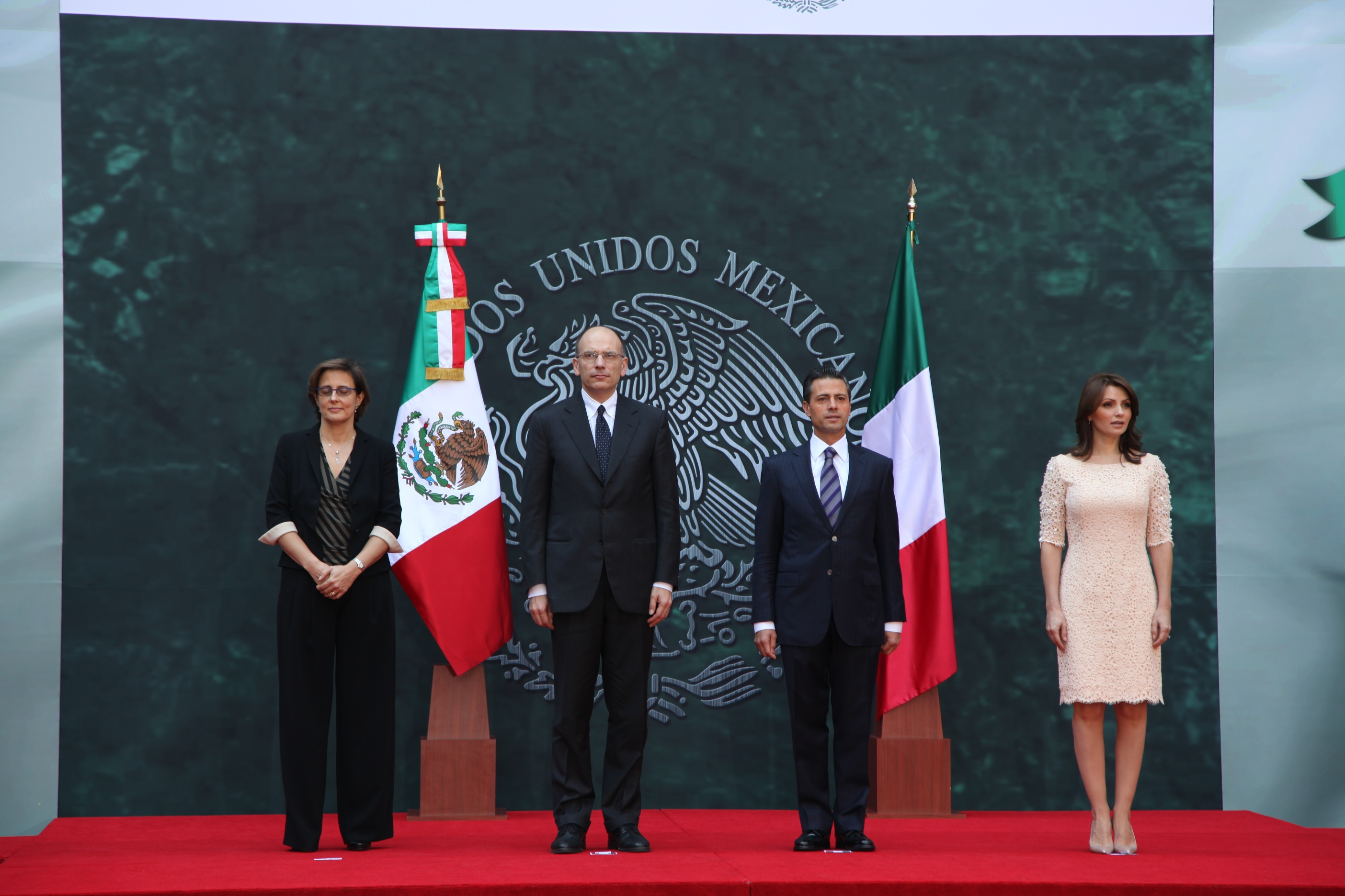 Italian Prime Minister Enrico Letta meets Mexican President Enrique Pena Nieto